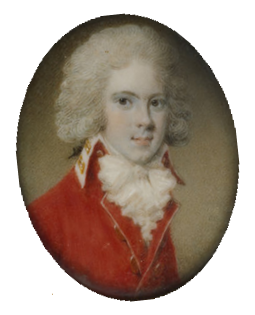 Colonel John Palmer Chichester, portrait miniature attributed to Philip Jean, c.1790. Arlington Court, Devon. National Trust miniatures Catalogue number: ARL 2NT Inventory number: ARL/P/49